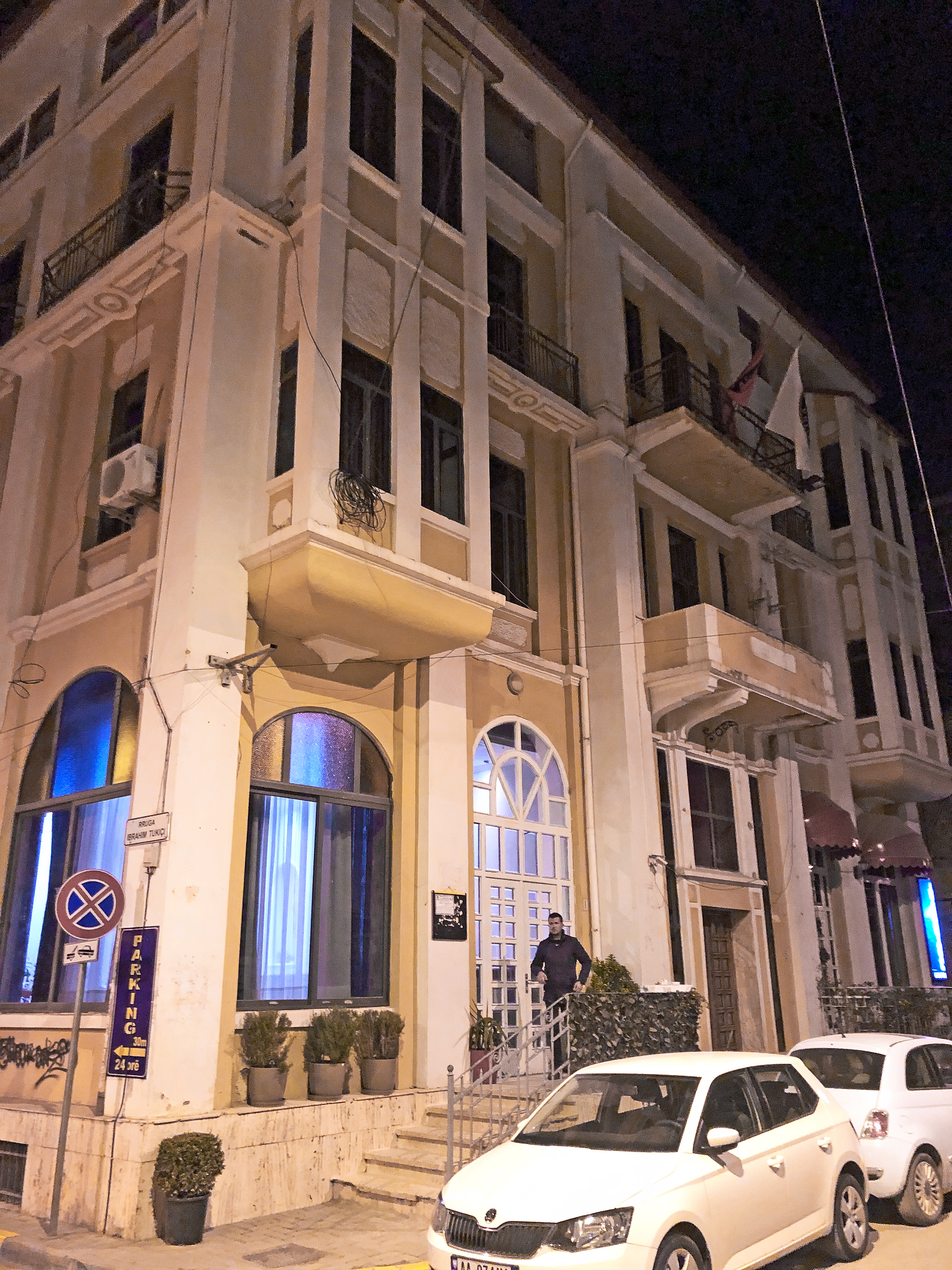 Former Hotel Internacional in Tirana, Albania